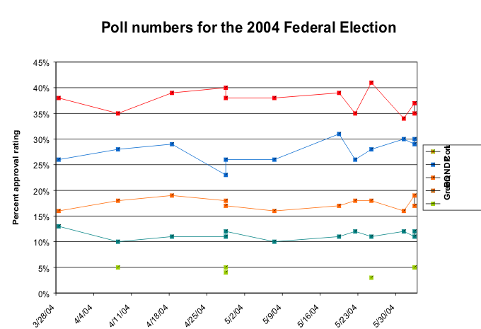 Approval ratings (percentages) for the 2004 Canadian federal election, created by Nicholas Moreau, public domain Note, I'll fix the legend in future versions, but the parties are Liberal (red), Conservatives (pure blue), NDP (orange), the Bloc (grey blue), and the Green Party (leafy green).